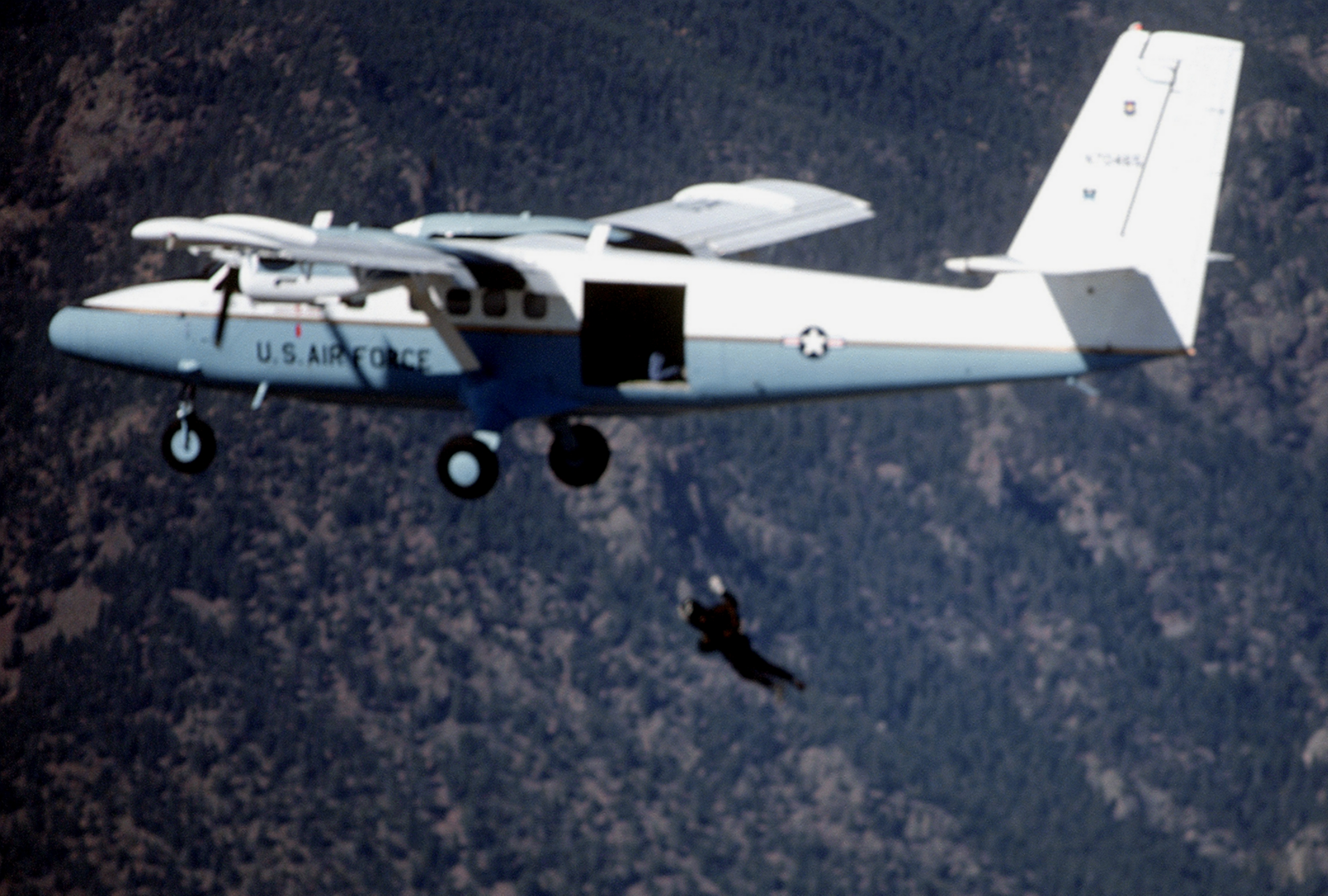 Parachutists jumping out of a U.S. Air Force De Havilland Canada UV-18B Twin Otter (s/n 77-0465) in 1980. The UV-18B, a military version of the DHC-6, is a parachute training aircraft for the United States Air Force Academy in Colorado Springs, Colorado (USA). The United States Air Force Academy's 98th Flying Training Squadron maintains three UV-18s in its inventory as freefall parachuting training aircraft, and by the Academy Parachute Team, the "Wings of Blue", for year-round parachuting operations.